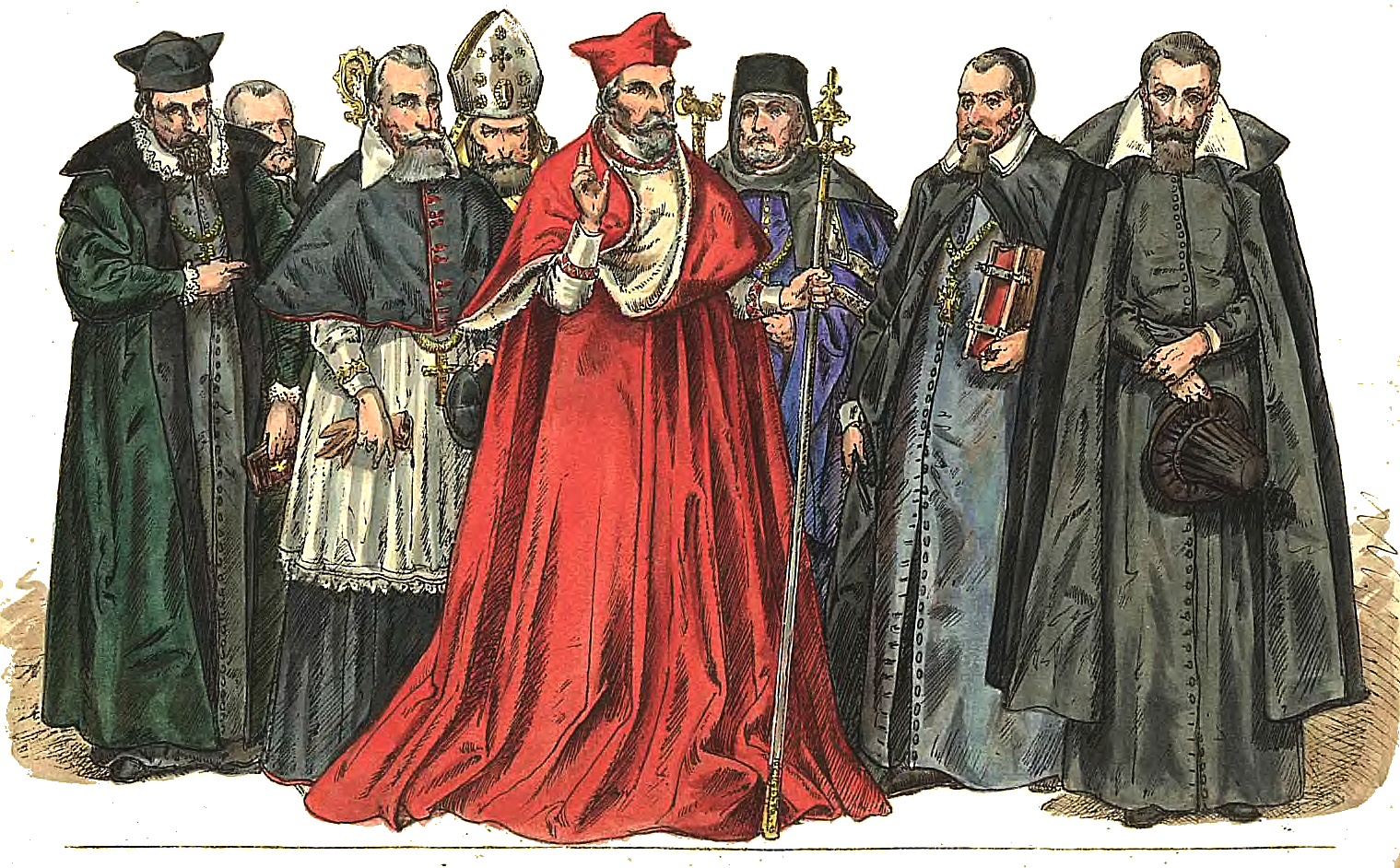 Polish clergy 1588-1632